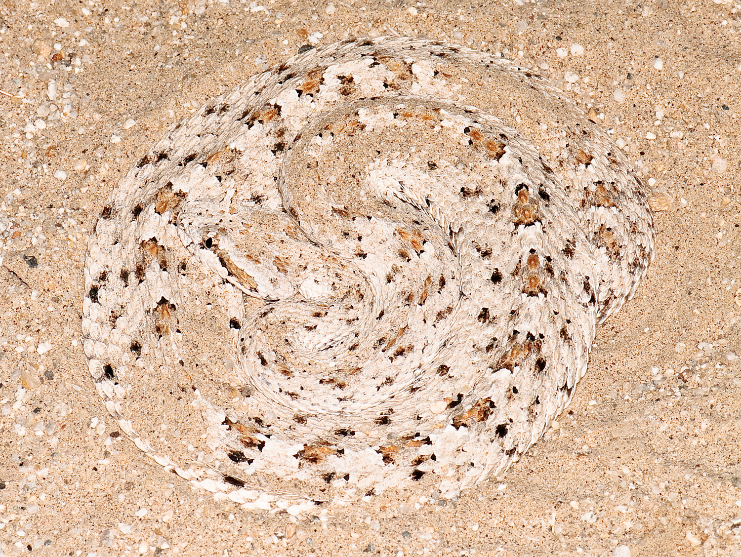 Crotalus cerastes laterorepens — Colorado Desert sidewinder. Rattlesnake subspecies native to the Colorado Desert, in southern California. Waiting in characteristic ambush position, at night, in disturbed sand dunes.